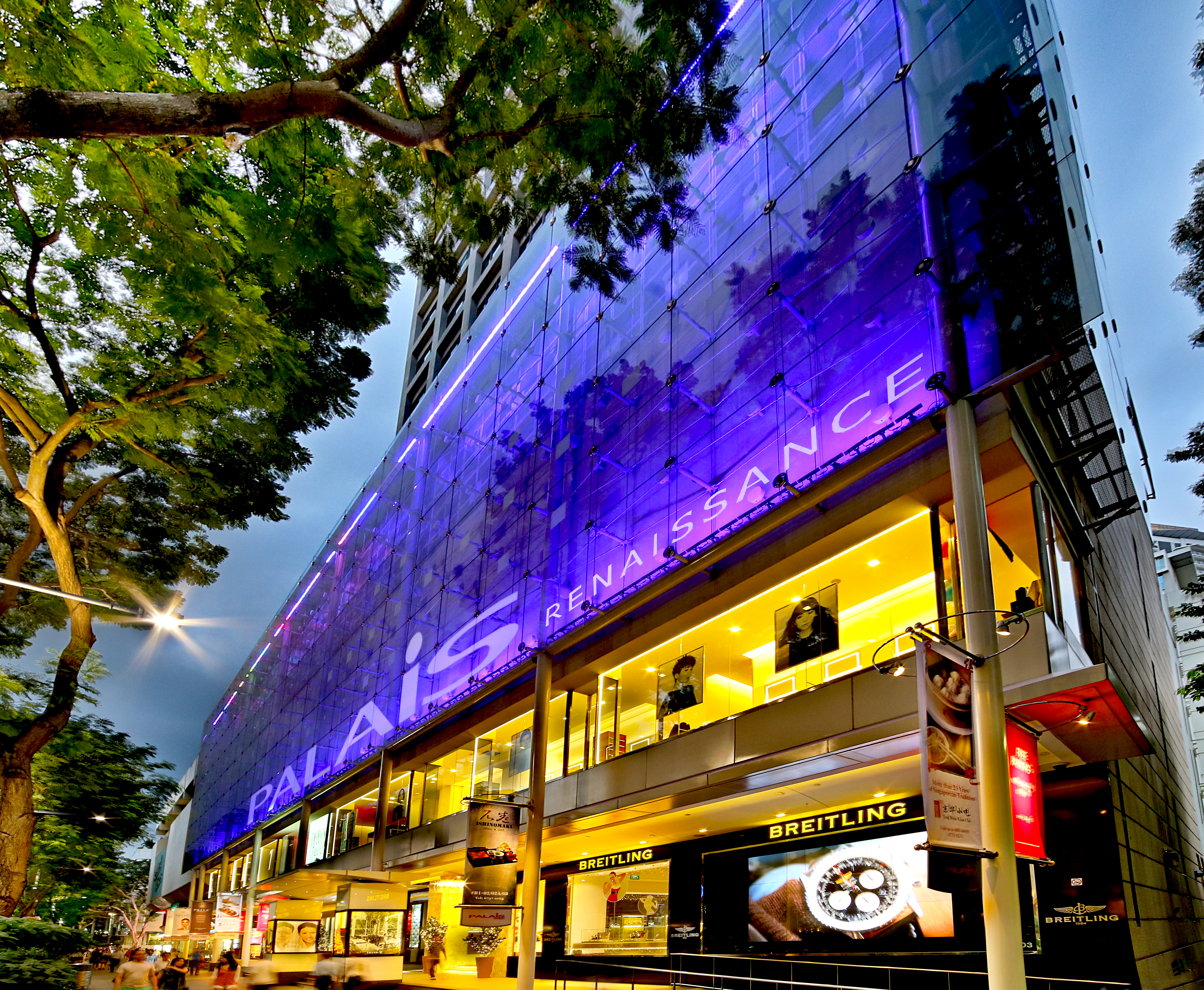 Palais Renaissance Facade